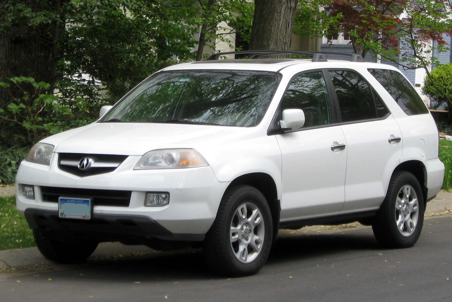 2004-2006 Acura MDX photographed in Chevy Chase, Maryland, USA.